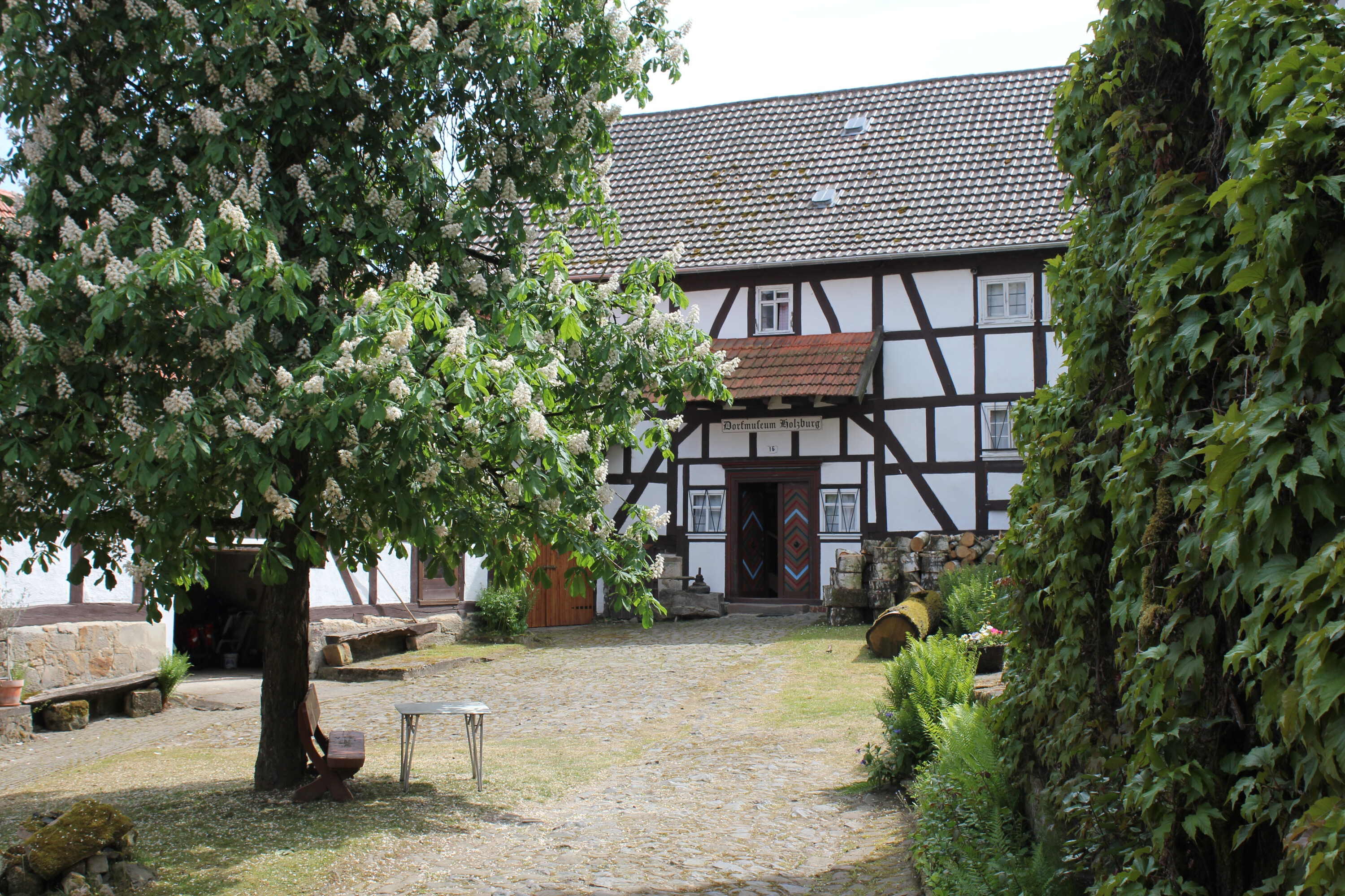 Entrance of the Museum Holzburg from the backyard